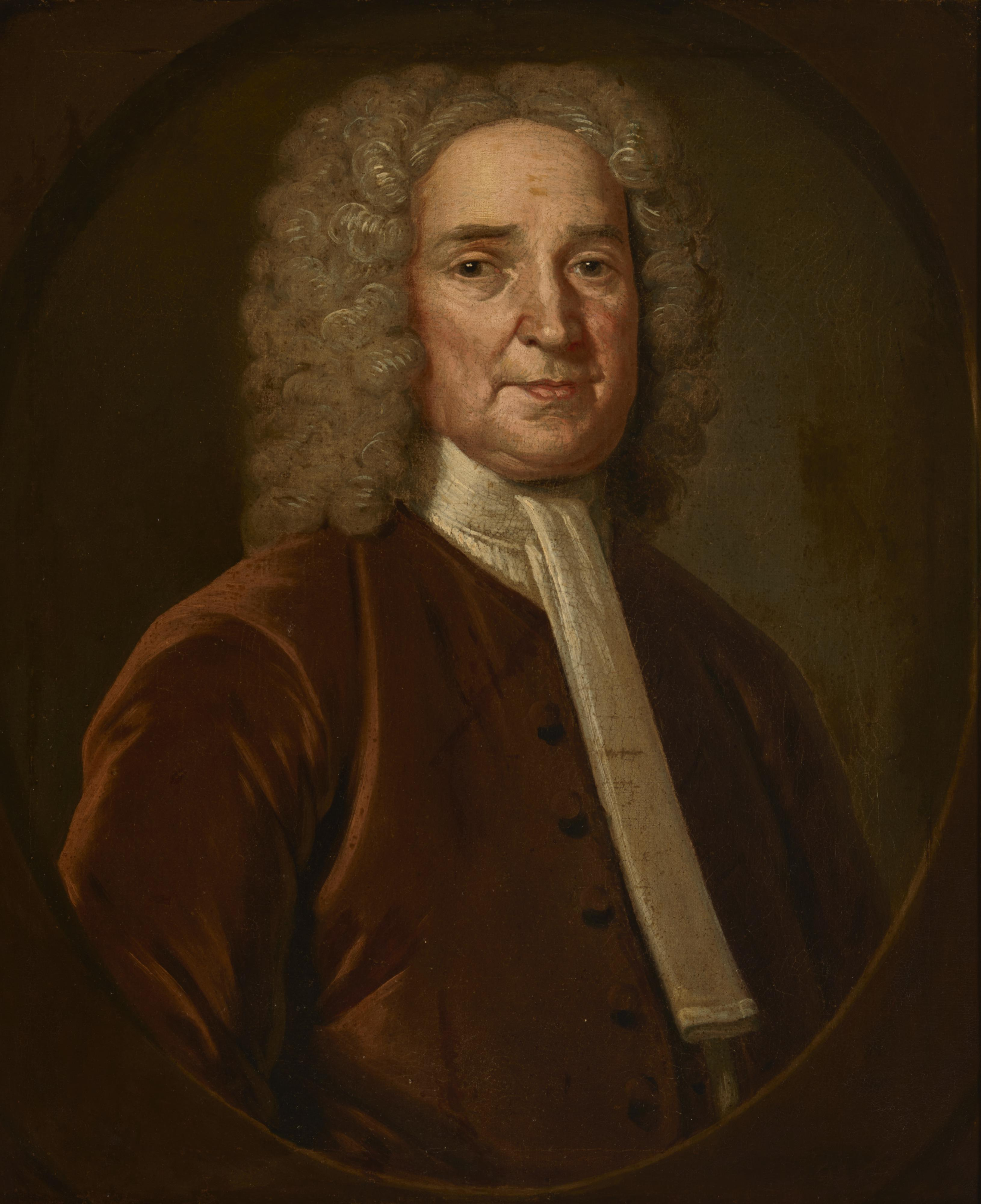 Painting of John Cotton (1693-1757) Minister of the Newton (Mass) Church